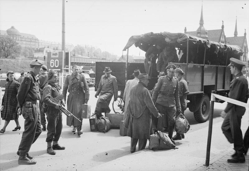 Germany Under Allied Occupation Nazi officers and officials arrive at British Military Headquarters, Flensburg, following the operation undertaken by men of 'A' Company, 1st Battalion, The Cheshire Regiment, 335 Security Section and a squadron of Belgian SAS to arrest members of the German Government. In a house in Muivik, a few miles from Flensburg, a total of twelve 'Grade 1' prisoners were taken including General Jodl.